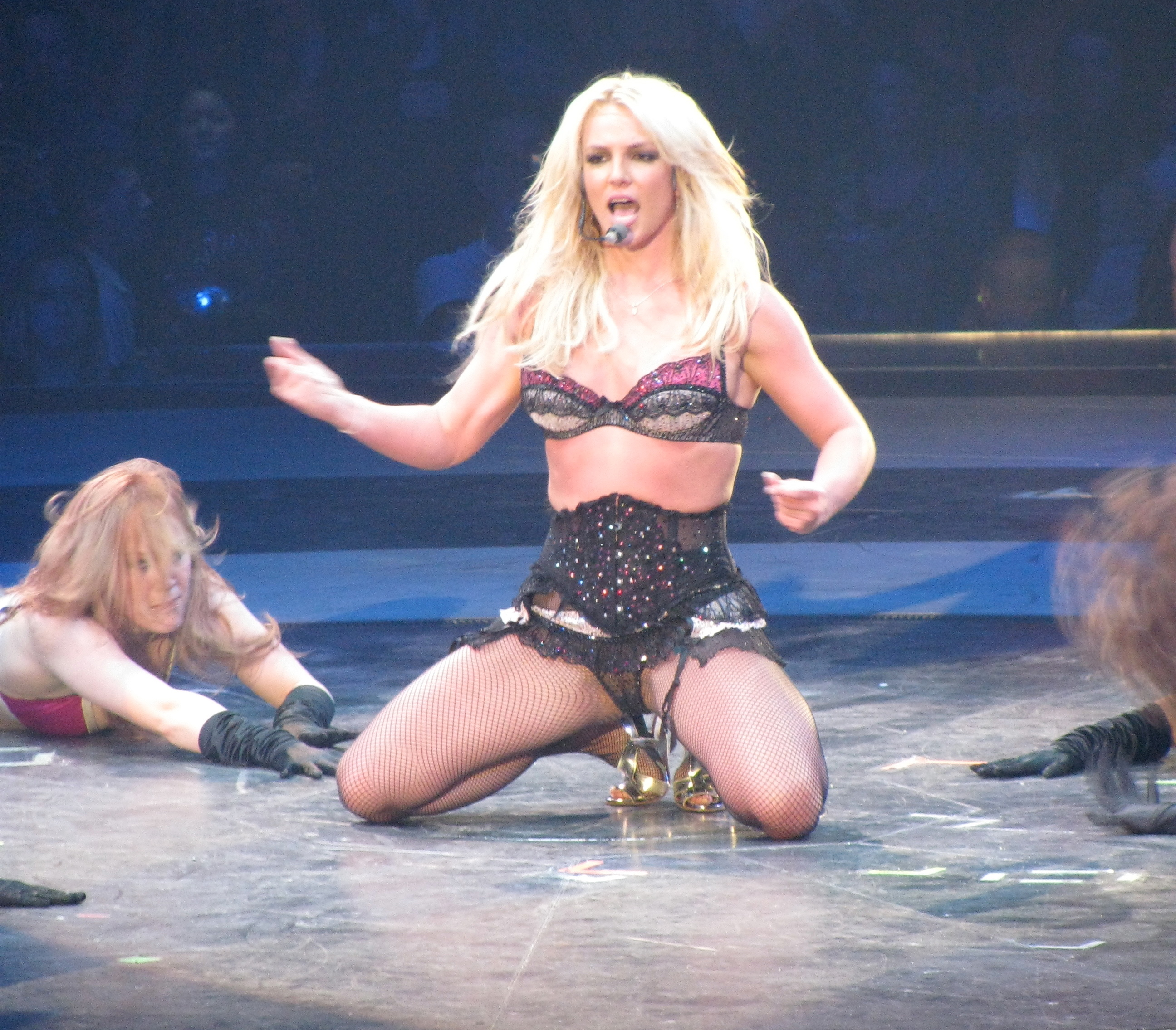 Britney Jean Spears Performing Hot As Ice At The Circus Starring: Britney Spears Tour.